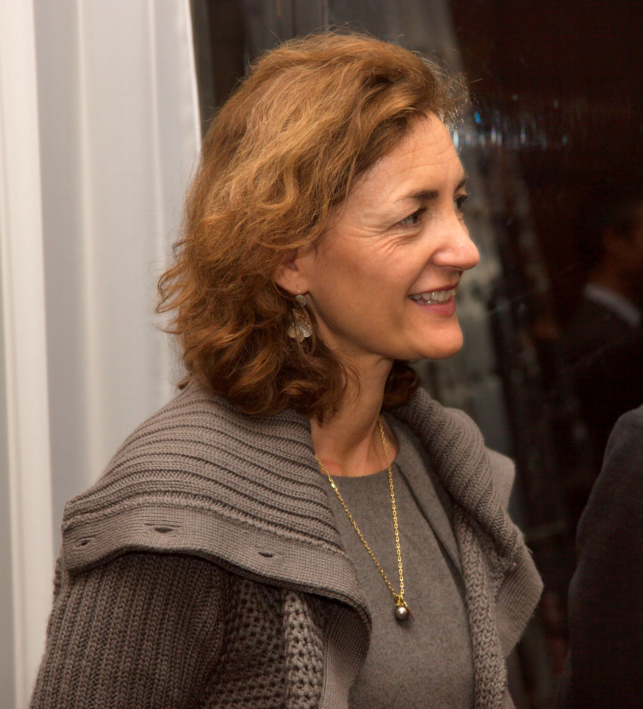 Isabelle Juppé, attending the bestowing of the National order of Merit on Florence Devouard